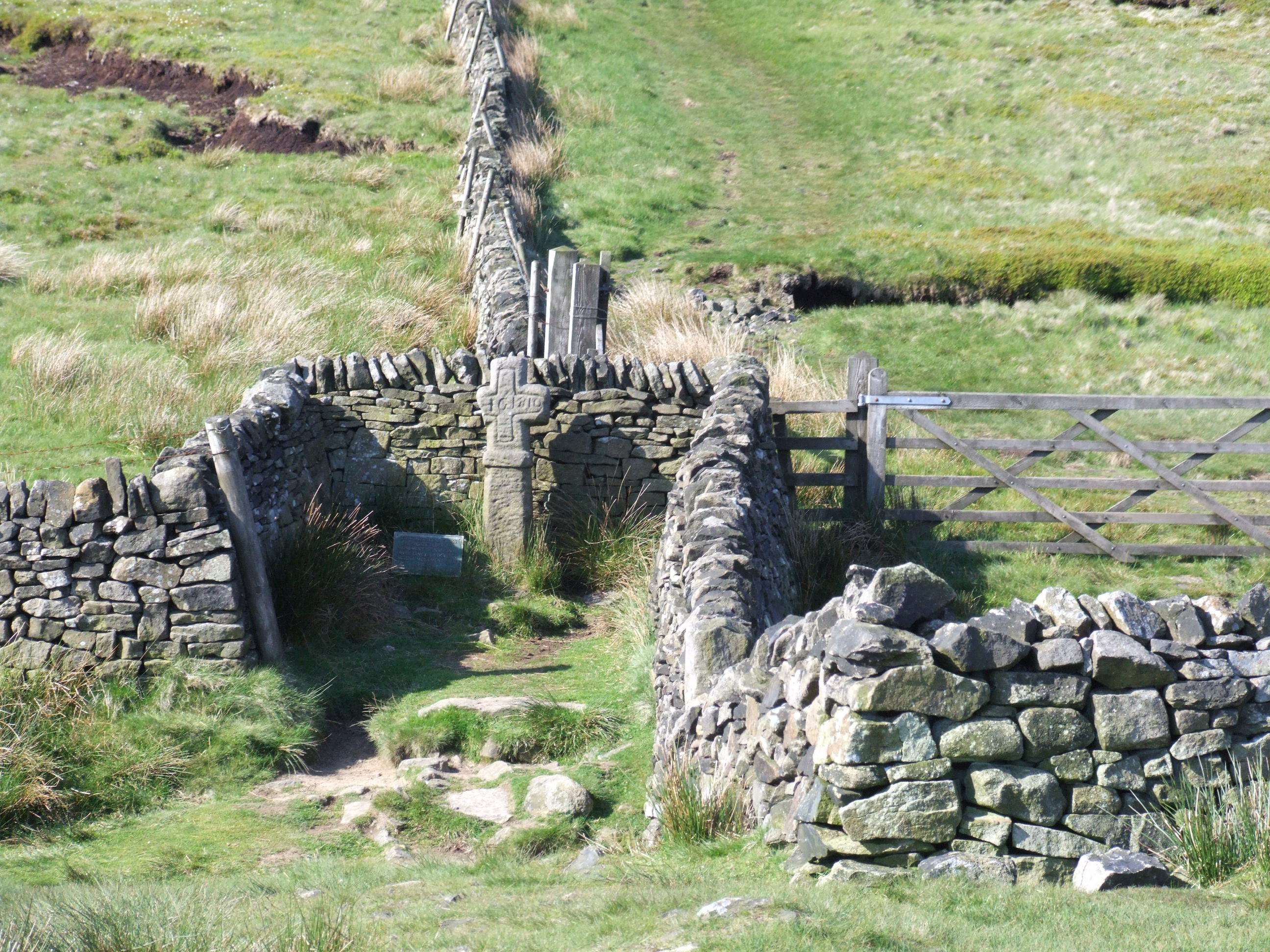 Kinder Scout is a moorland plateau (and mountain of over 600m) in the Derbyshire Peak District in the United Kingdom. There is a former packhorse route from Hayfield to Edale. Edale Cross - Google Maps - Google Earth